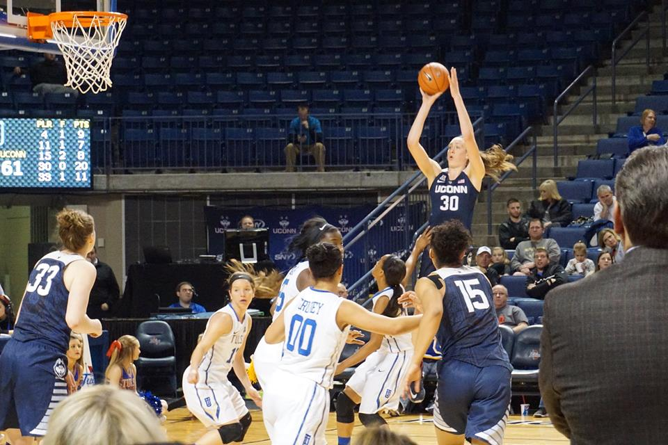 Breanna Stewart elevating to take a shot in the game against Tulsa, at Tulsa 2015